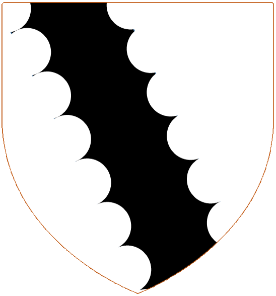 Shield of arms of The Earl of Derwentwater